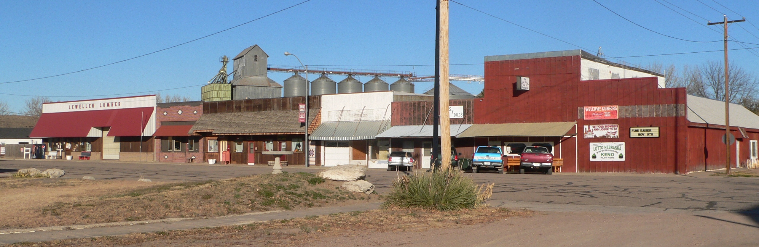 Downtown Lewellen, Nebraska: east side of Main Street, seen from Parker Street.